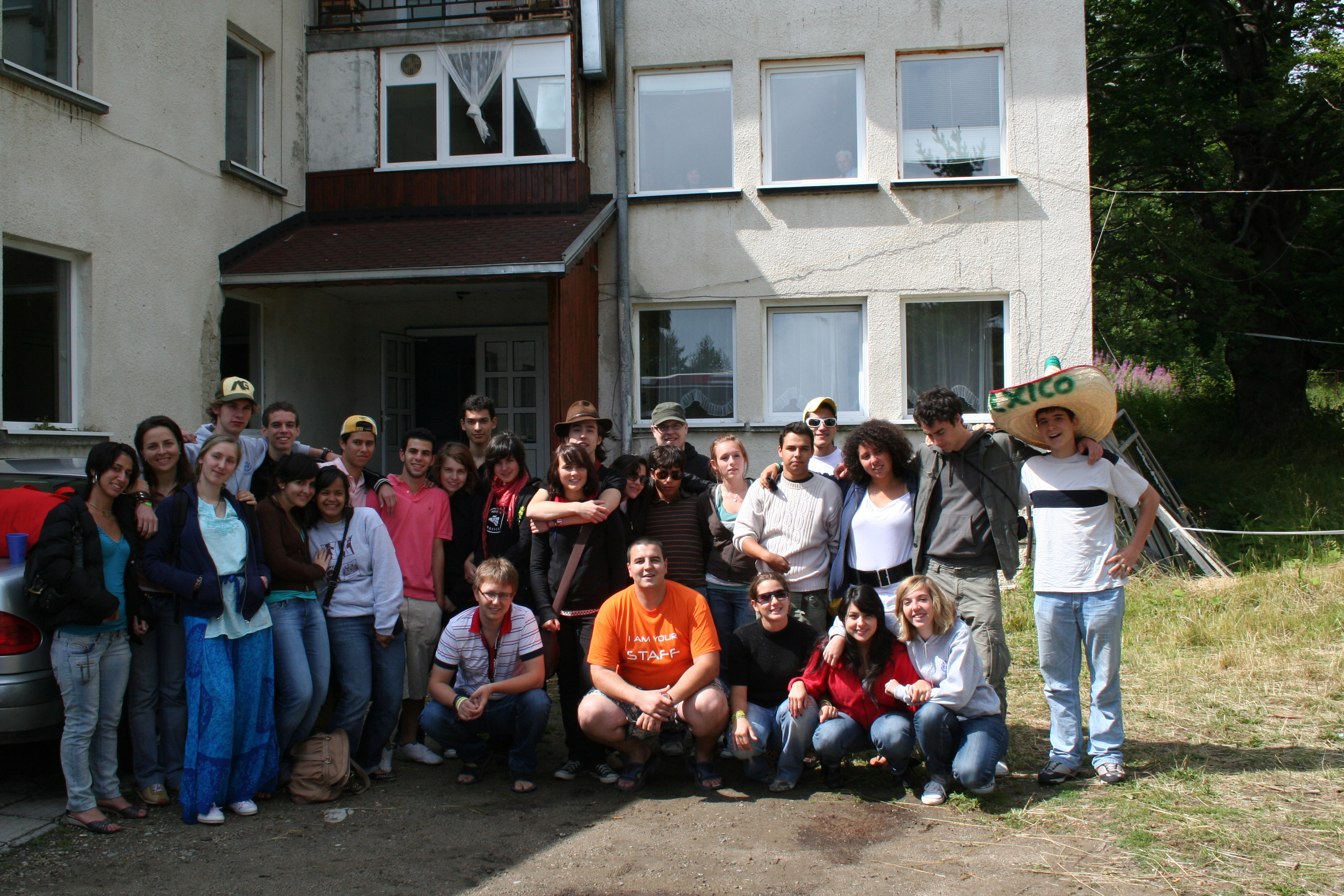 An example of CISV Seminar Camp program